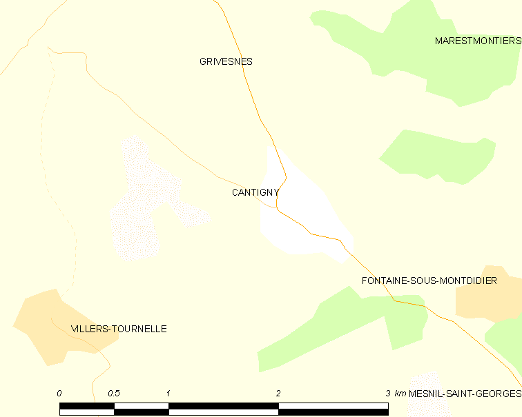 Map of French municipality Cantigny